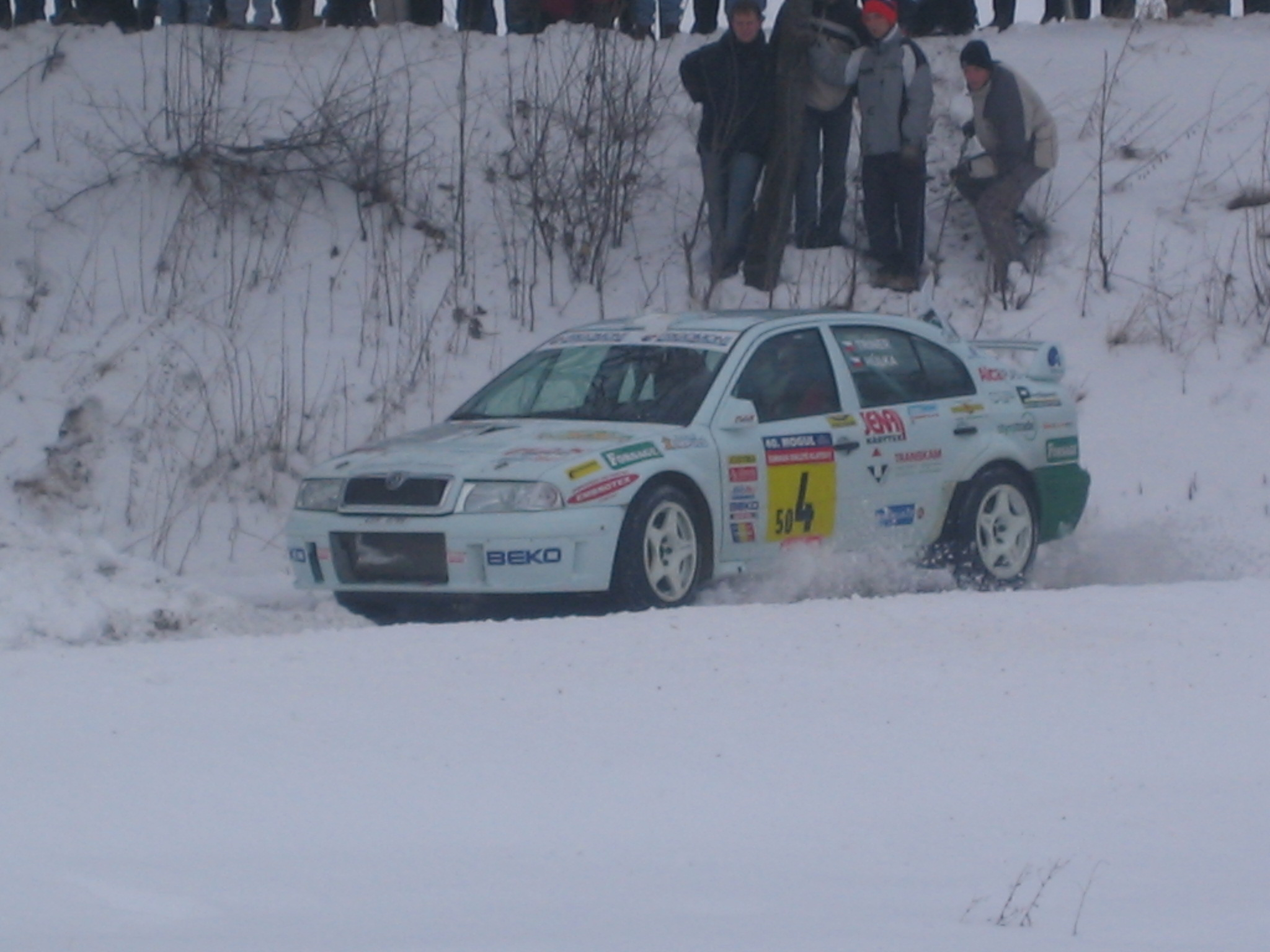 Emil Triner, Rally Šumava 2005